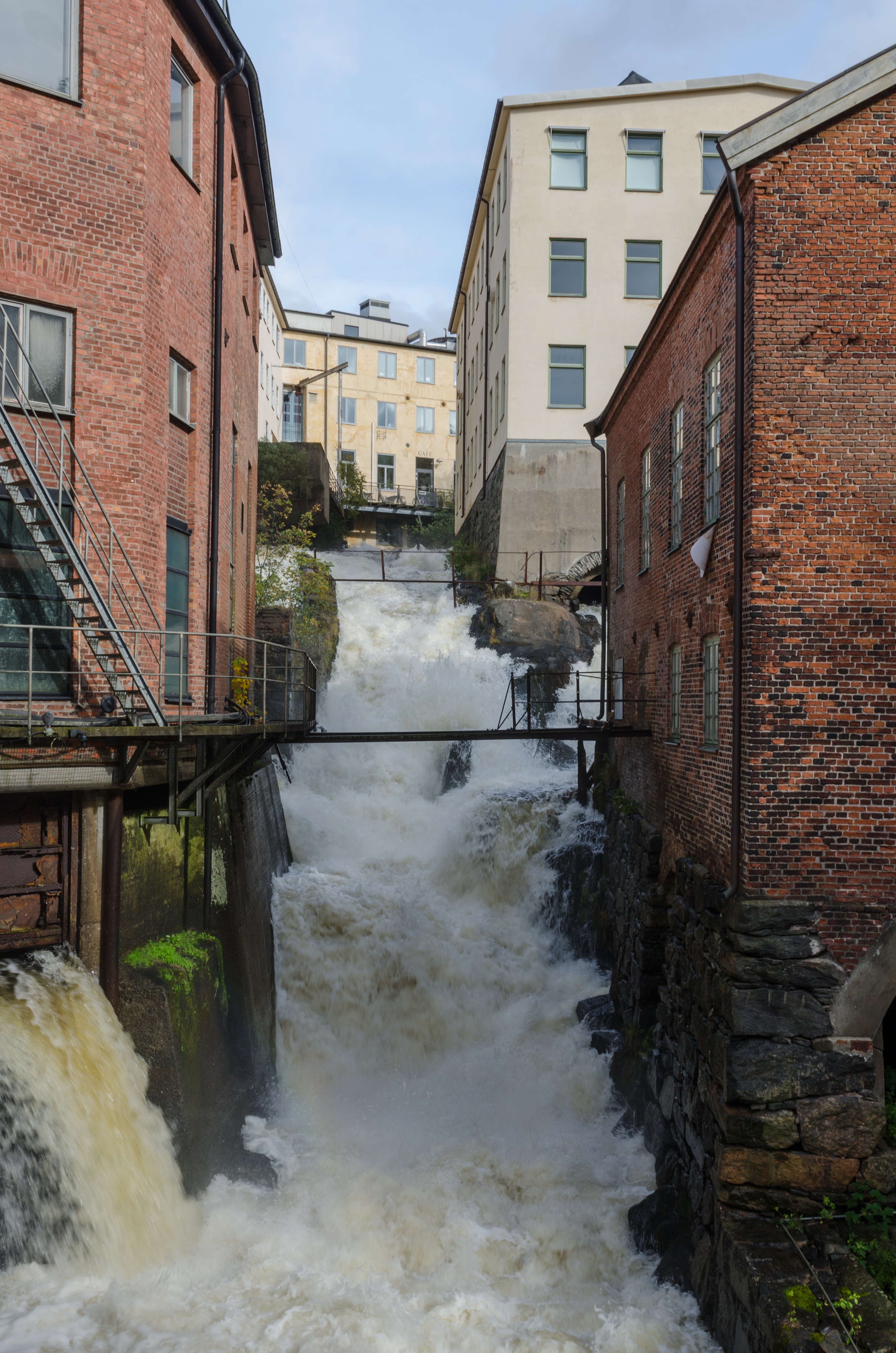 Kvarnbyn (Swedish The Mill Village) is an old industrial area in Mölndal, 8 kilometers south of Gothenburg (Västra Götaland County, Sweden). The narrow but high and long waterfalls in Kvarnbyn gave the necessary power to all the watermills that together with the windmills on the hills gave birth to the early industrialisation of Mölndal.